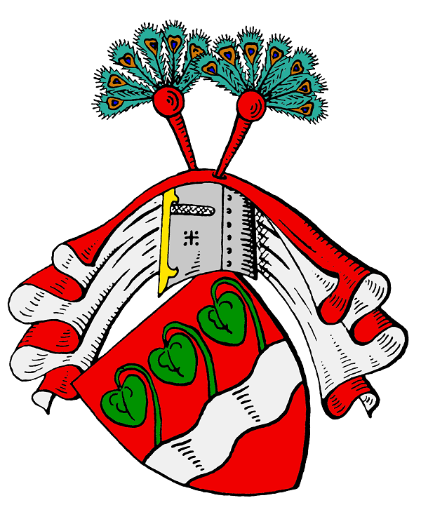 Coat of arms of the Bernstorff family